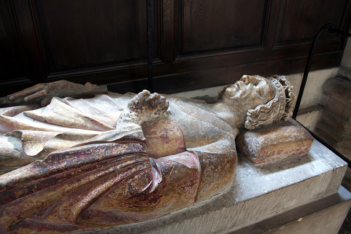 The funerary monument with the effigie of William Longsword (Guillaume longue épée, 2nd duke of Normandy, d.942) in the cathedral of Rouen, France. The monument is from the XIVth century (or 4th quarter of the 13th century ?). Historical monument since 1862 (numer PM76002028) - note : identity of William Longsword verified by utilisateur:Romanito